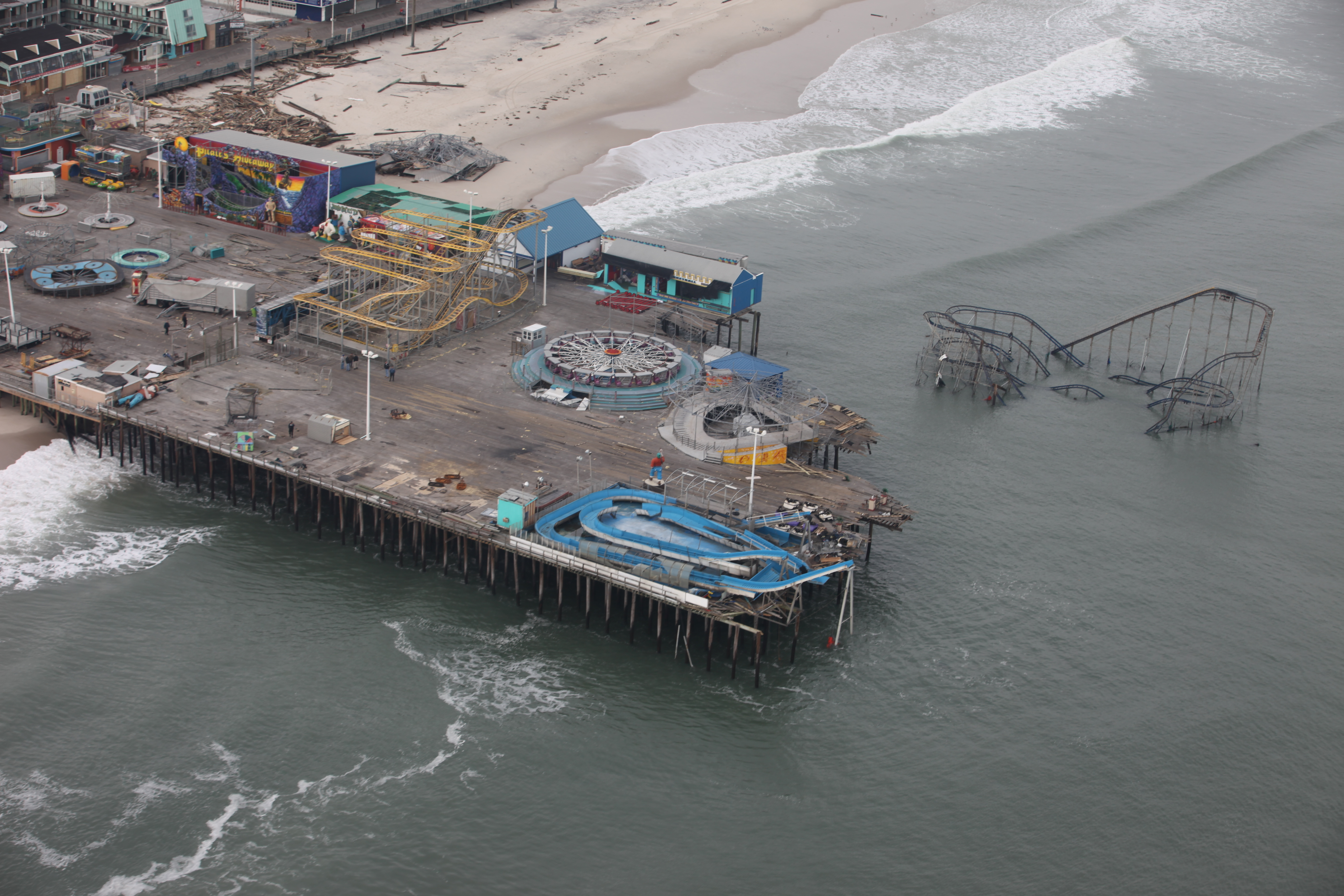 Aerial photo of Casino Pier amusement park in Seaside Heights after Hurricane Sandy. Photo credit: Greg Thompson/USFWS Stay informed